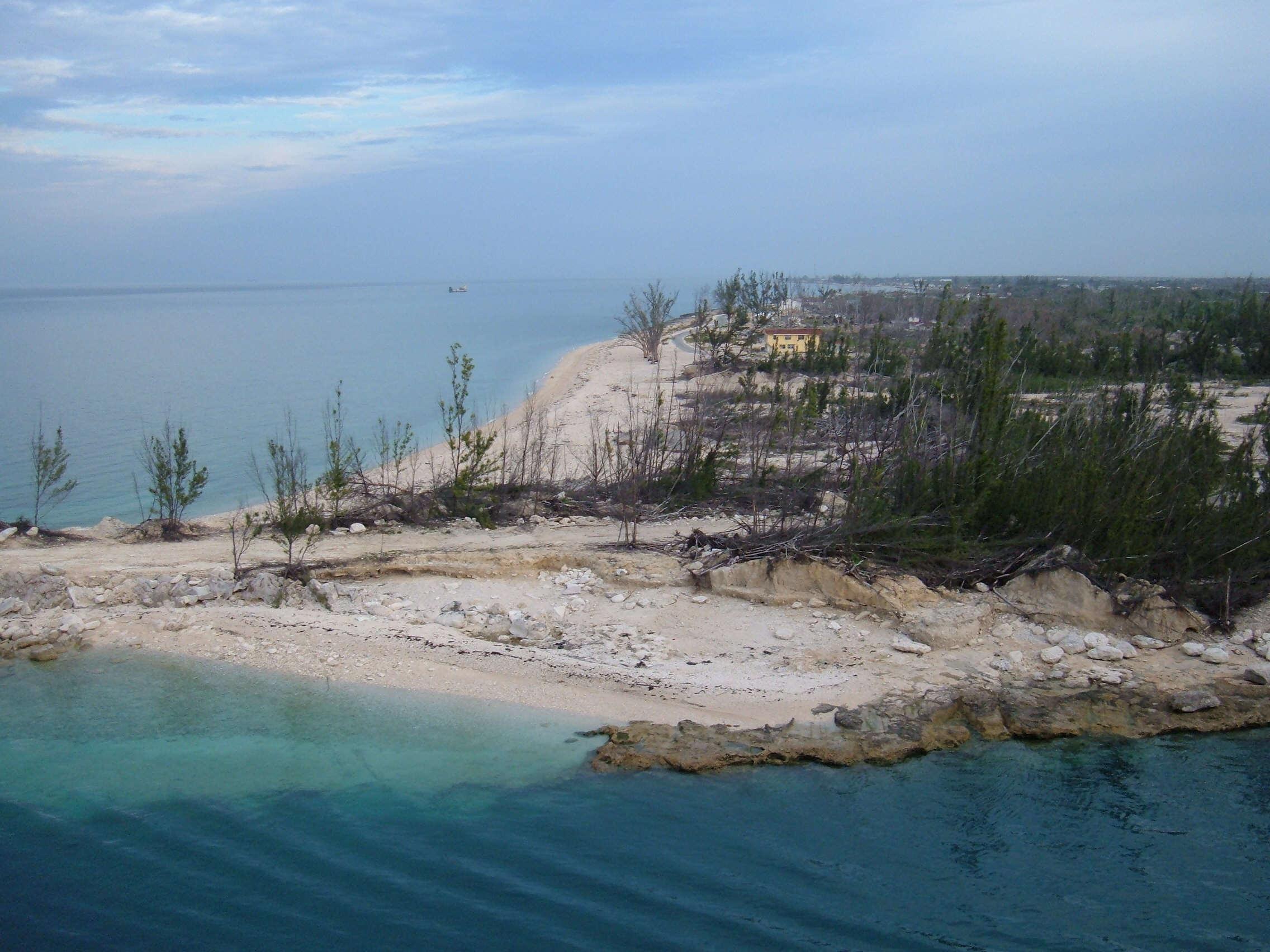 The entrance to Freeport Harbour on Grand Bahama Island, The Bahamas.